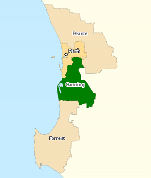 Incorporates or developed using Administrative Boundaries ©PSMA Australia Limited licensed by the Commonwealth of Australia under Creative Commons Attribution 4.0 International licence (CC BY 4.0). Derived from State and Territory Boundaries from the Australian Bureau of Statistics under Creative Commons Attribution 2.5 Australia license (CC BY 2.5 AU)